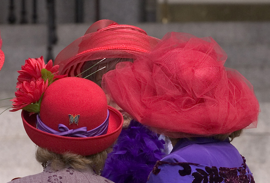 Red Hat Society Women of Victoria, BC Canada